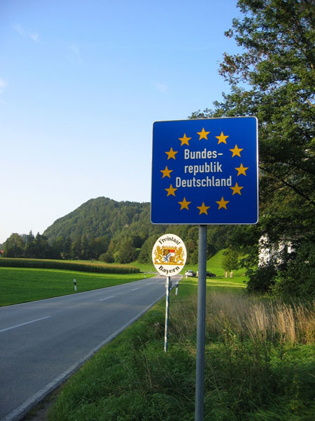 A typical "Schengen-border" (here near Kufstein between Germany and Austria). No control posts whatsoever, merely the usual EU-sign.